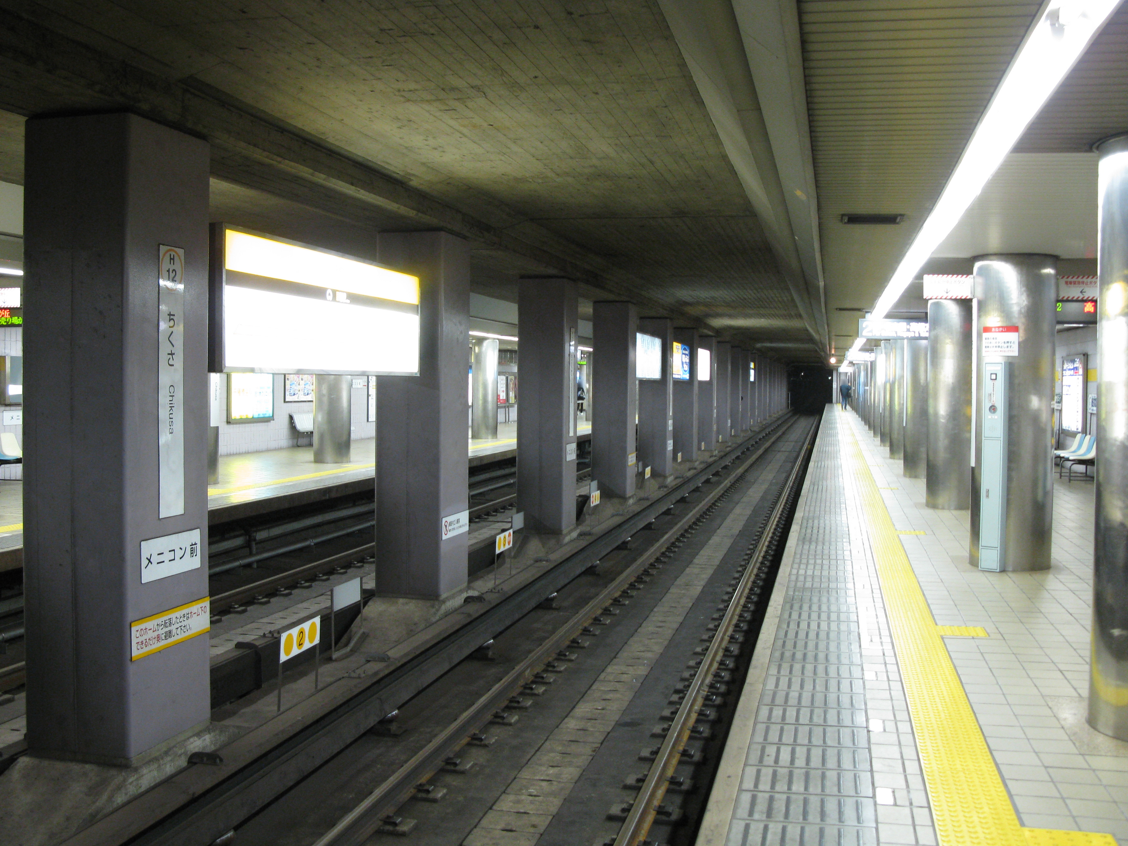 Chikusa Station platform (Nagoya Municipal Subway Higashiyama Line)